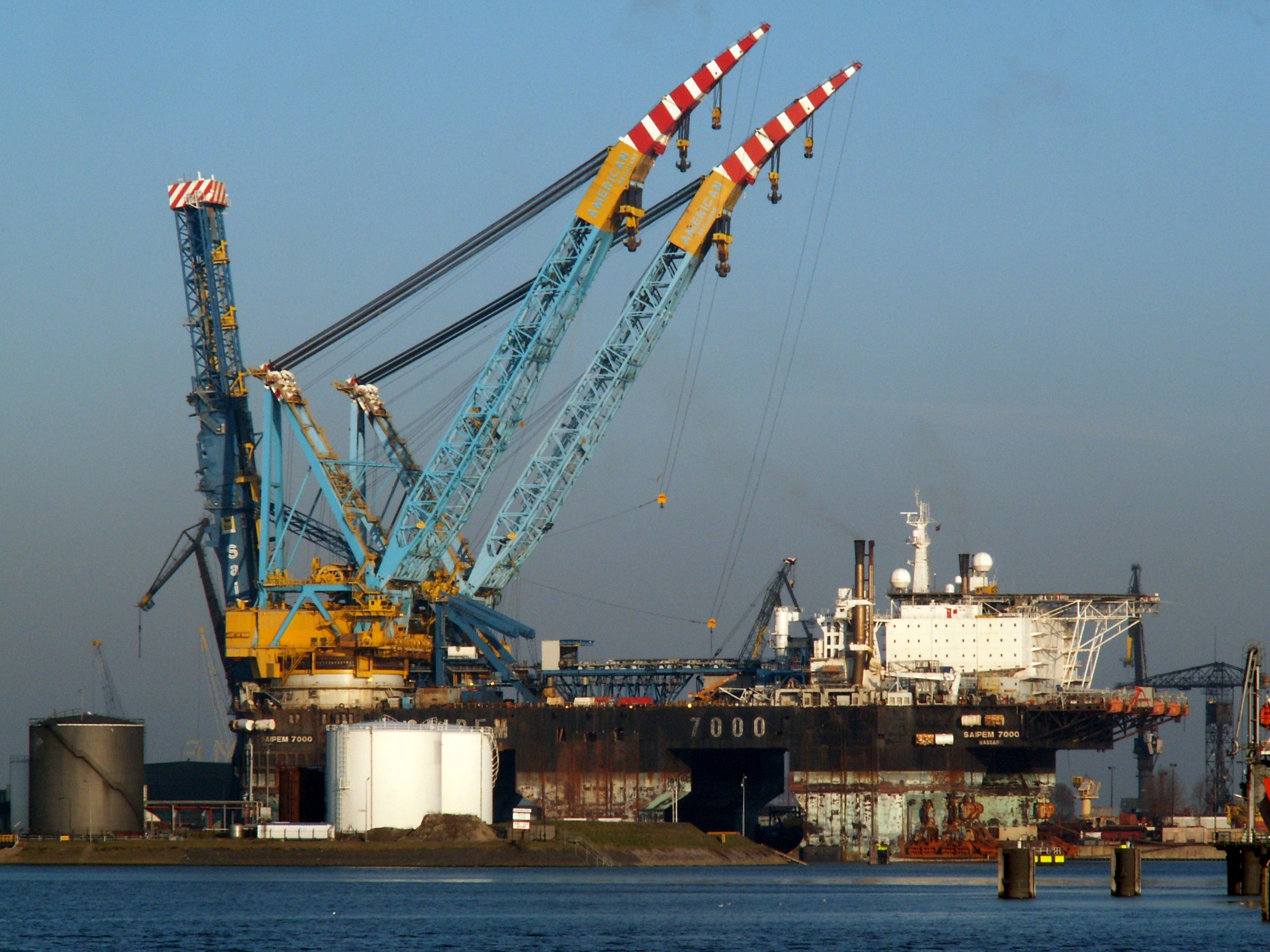 Photographed at the Port of Rotterdam, The Netherlands. IMO 8501567 - Callsign C6NO5